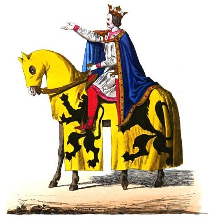 Fernando of Portugal